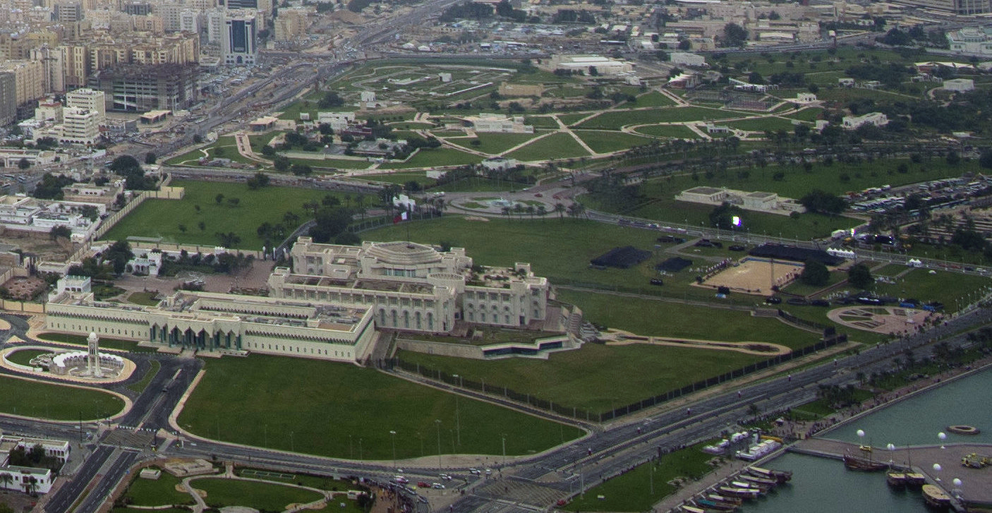 A U.S. Air Force F-15E Strike Eagle assigned to the 494th Expeditionary Fighter Squadron, conducts a formation fly over honoring Qatar National Day, Doha, Qatar Dec. 18, 2019. Qatar National Day is an annual holiday for Qataris to commemorate their national identity and history, and allows them to remember how their national unity was achieved. This year’s Qatar National Day celebration included a parade featuring massive fire work displays, military aircraft flyovers, and many other demonstrations of national unity. (U.S. Air Force Photo by SSgt Bethany La Ville)